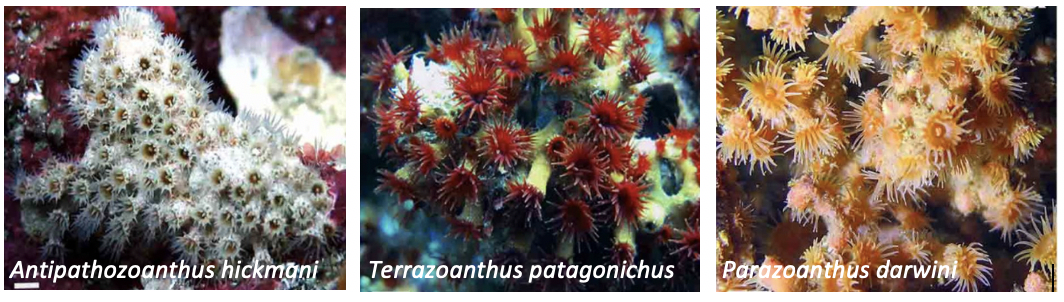 Antipathozoanthus hickmani , Terrazoanthus patagonichus & Parazoanthus darwini